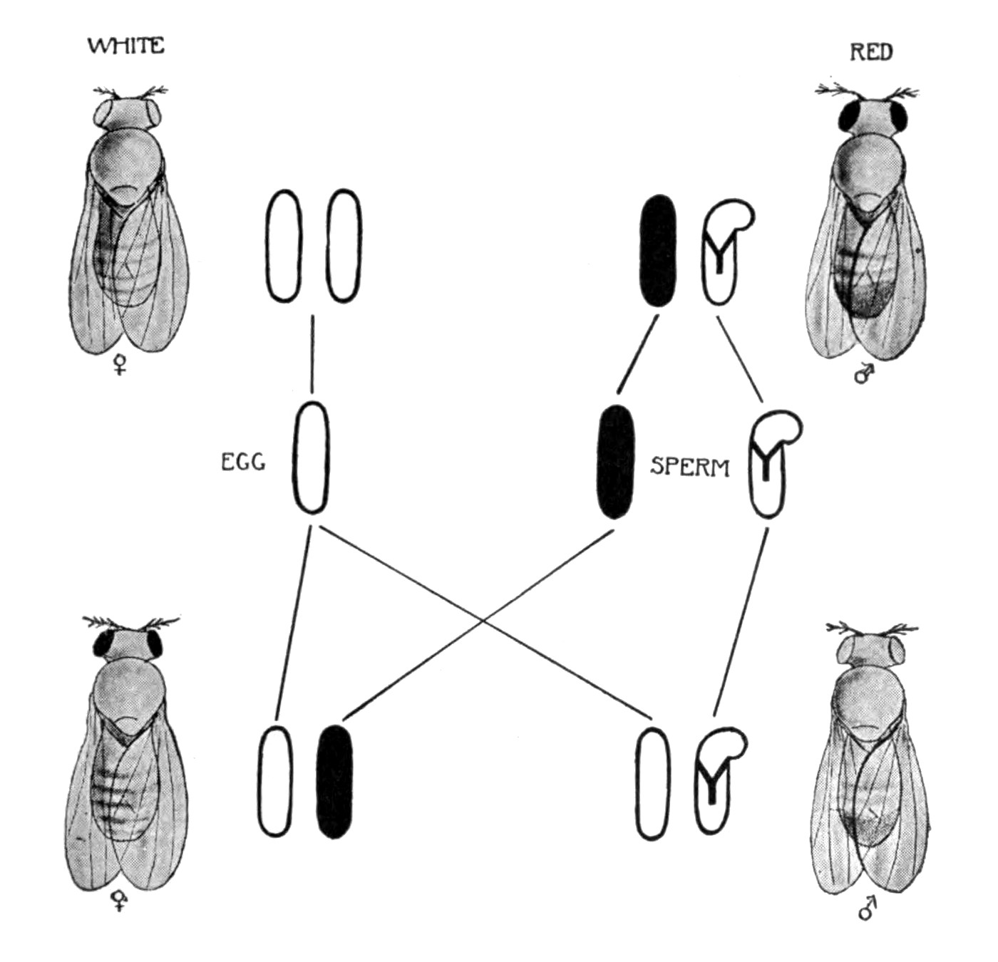 Criss-cross inheritance in Drosophila.